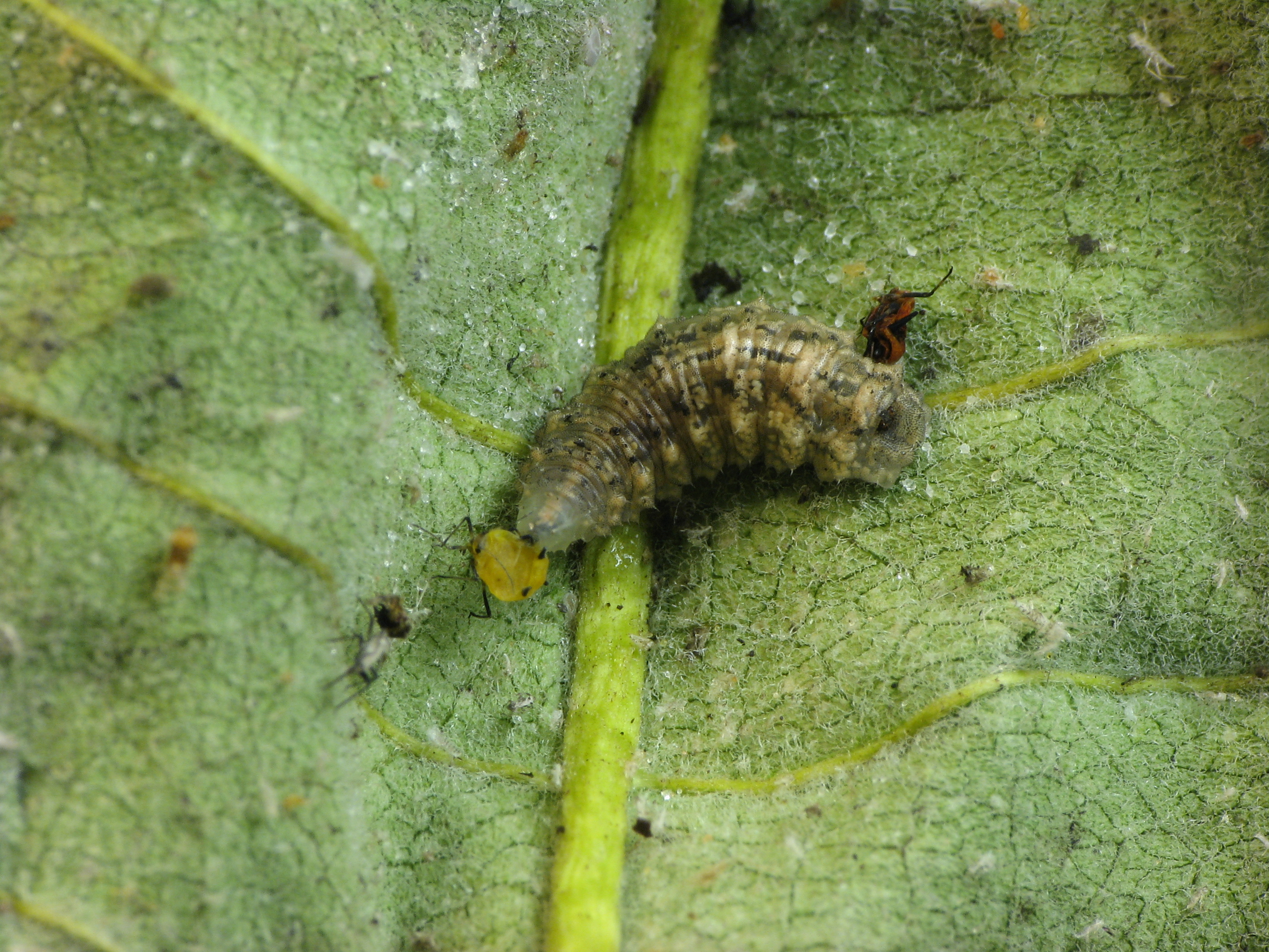 American hover fly, Eupeodes americanus, eating aphids on common milkweed. Schuylkill Nature Center, Philadelphia County, Pennsylvania, USA.